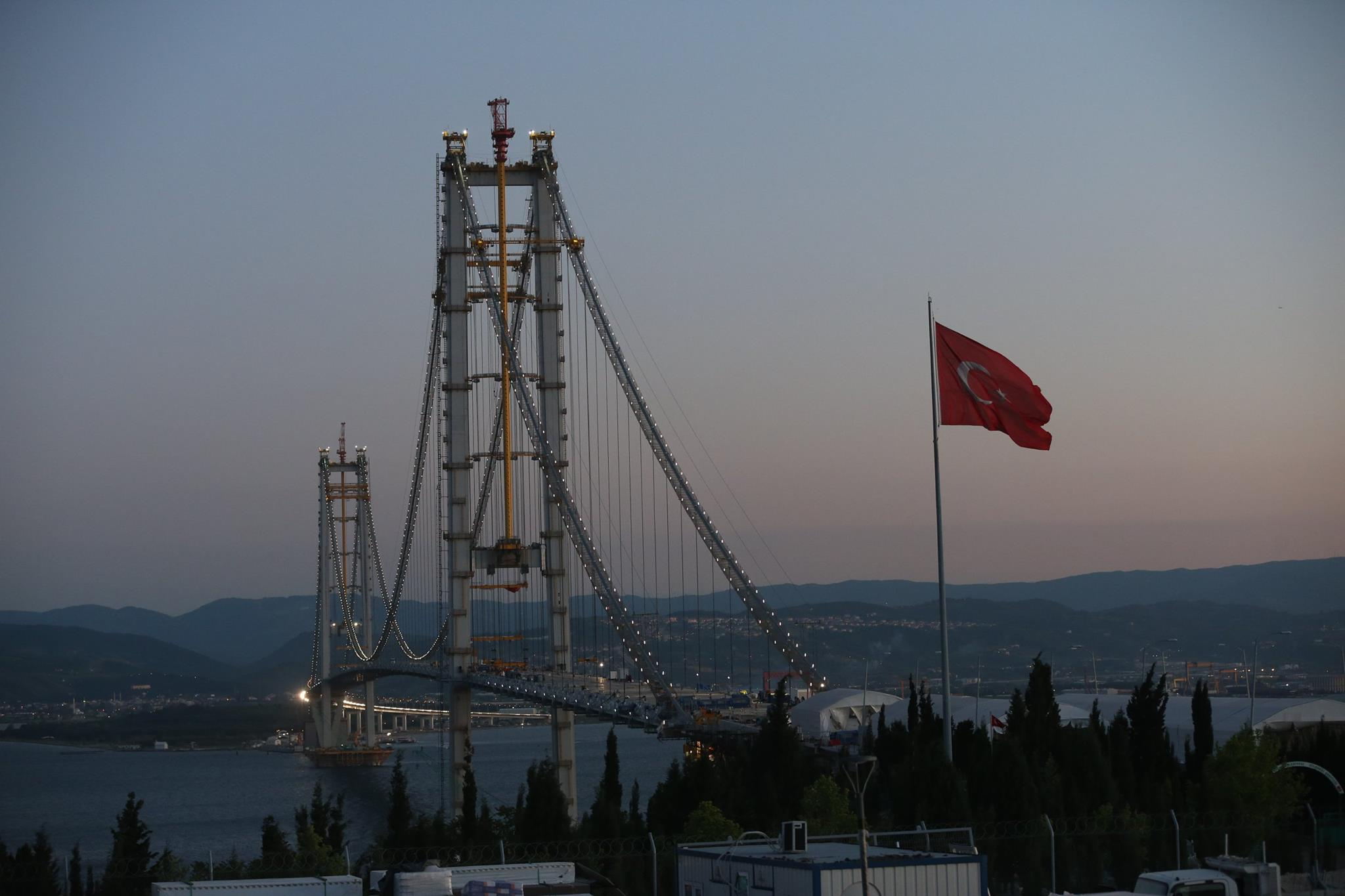 The Osman Gazi Bridge